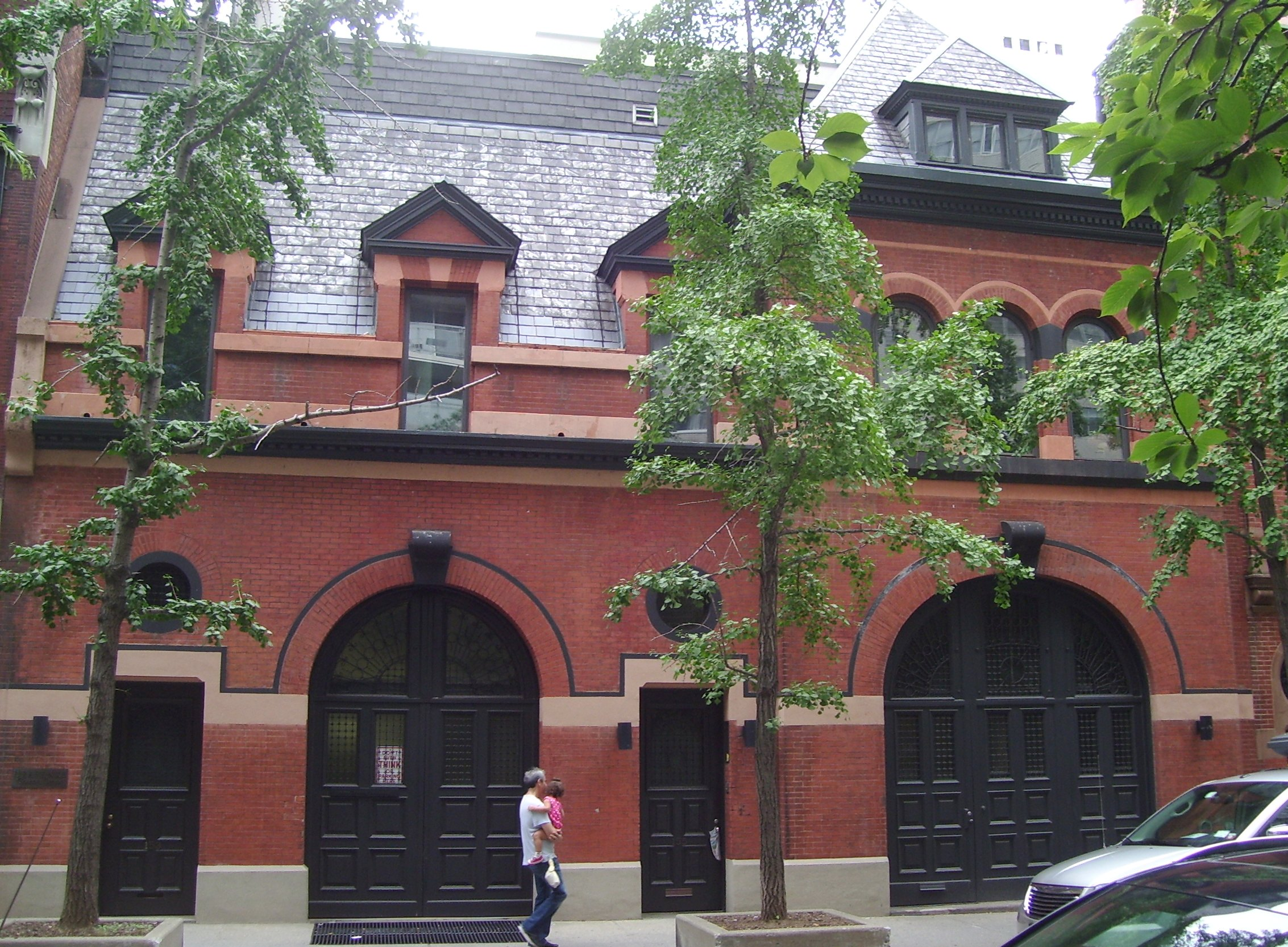 The former carriage house at 153 East 69th Street between Lexington and Third Avenues in the Lenox Hill neighborhood of Manhattan, New York City was built in 1884 and was designed by William Schickel in the Romanesque Revival style. It is part of a row of converted carriages houses all located within the Upper East Side Historic District. (Source: AIA Guide to NYC (5th ed.) It was the studio of Mark Rothko and since 1980 is the Urasenke Chanoyu Center of New York.